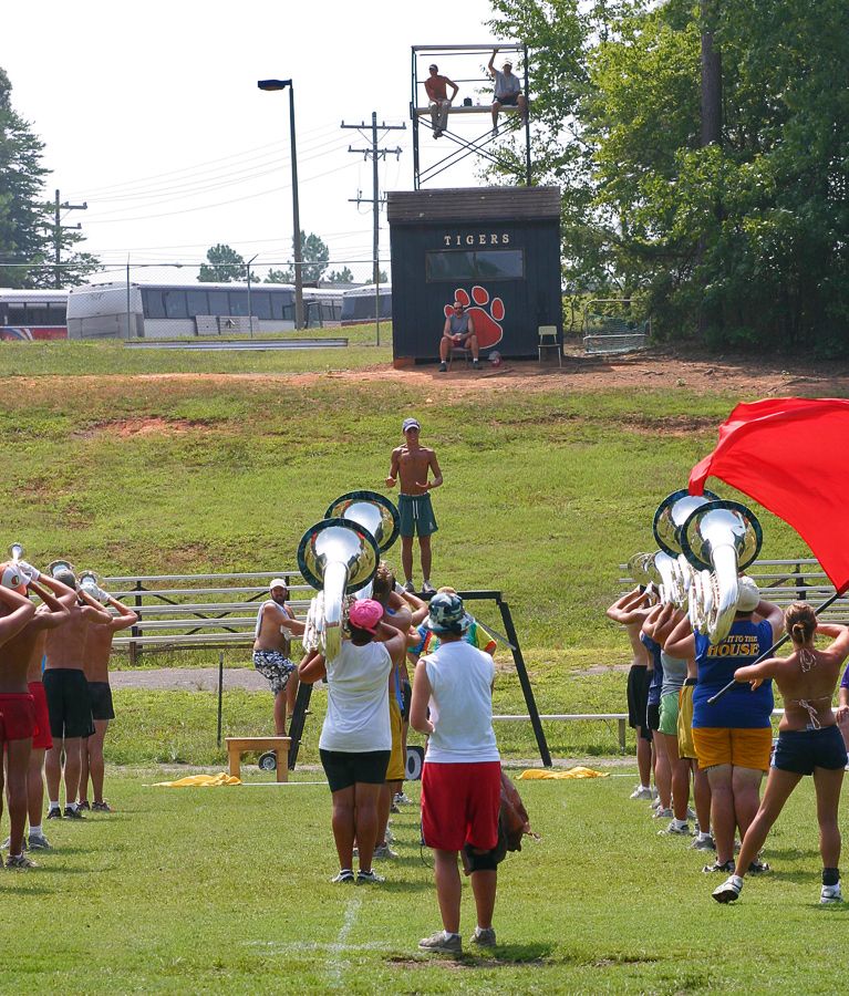 A picture of a Blue Stars practice during the 2006 season.